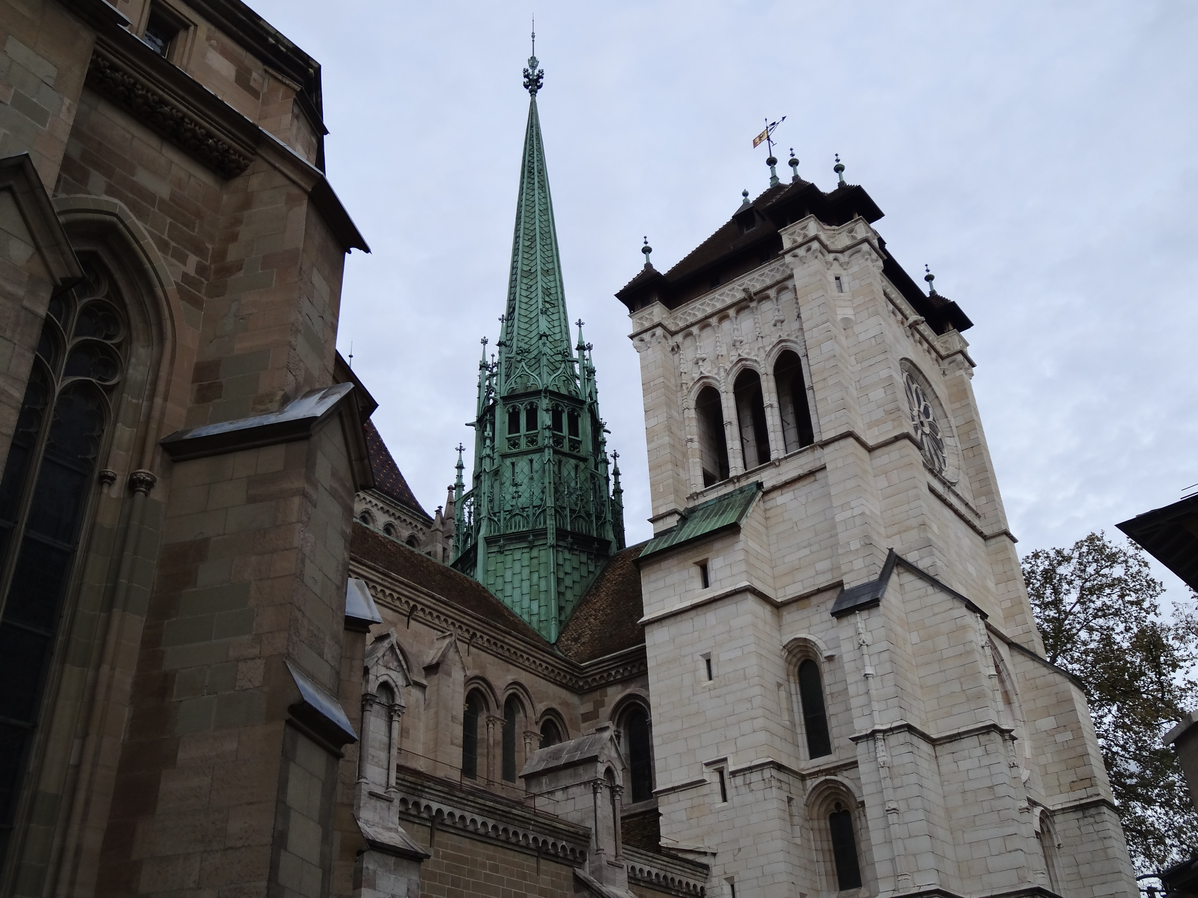 Geneva